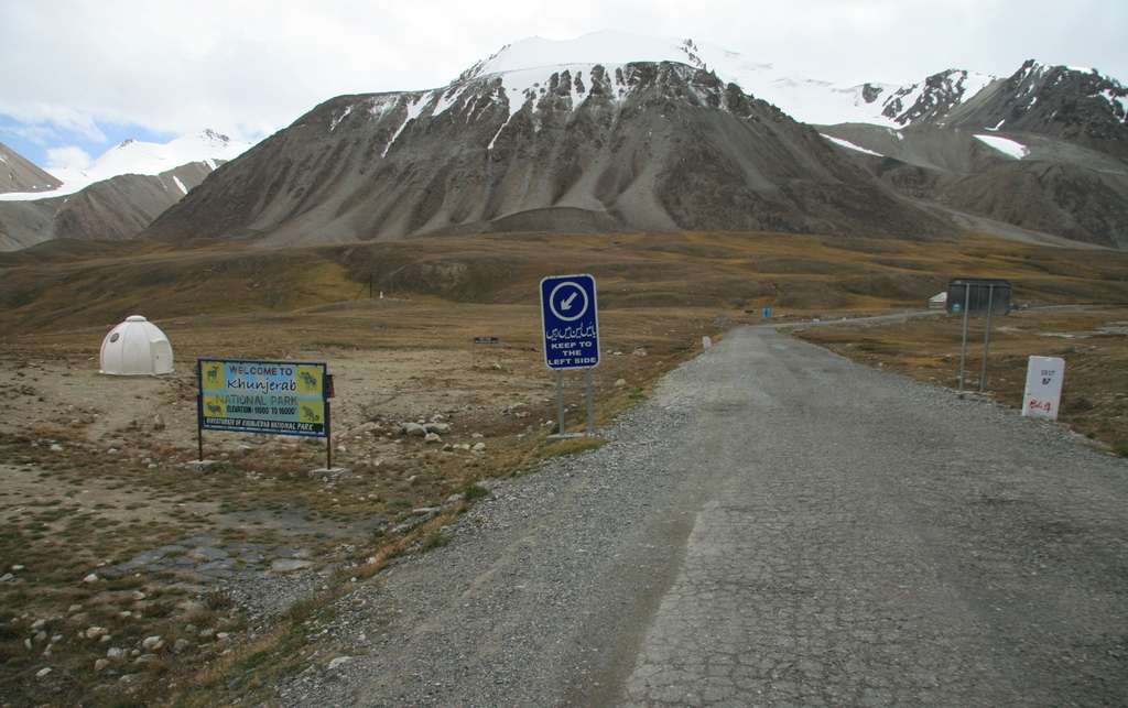 Karakoram Highway over Khunjerab Pass between China and Pakistan is the highest elevation International Border Crossing in the World.